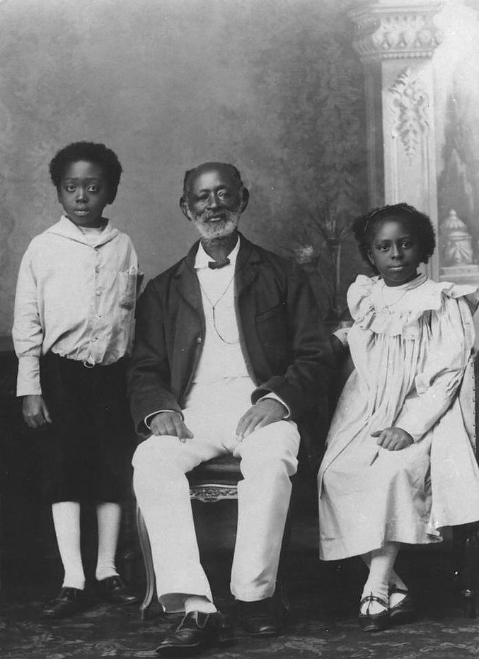 Aquasi Boachi with his children on Java. Left Aquasi junior and right Quamina Aquasina.